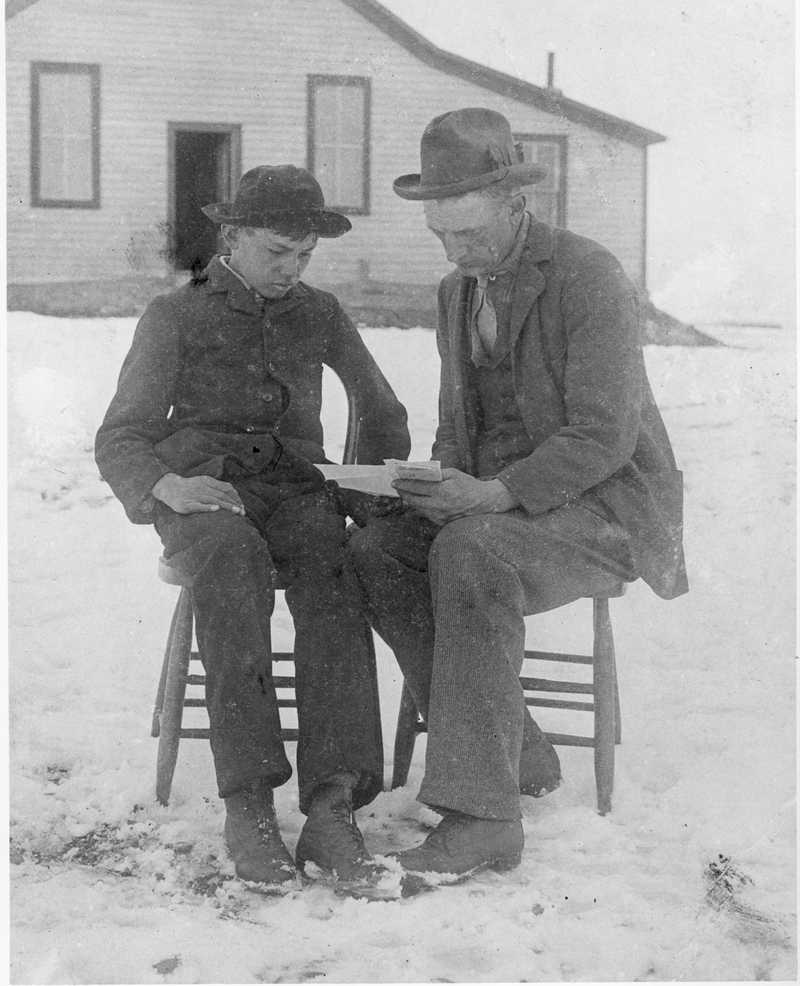 Title: James Willard Schultz and Lone Wolf in 1894 Creator: Unknown Date: 1894 Description: Photo of a young boy and a man sitting in front of a building on chairs in winter reading a letter. Written on verso: James W. Schultz and son Hart ( Lone Wolf) Blackfoot, Montana 1894 I represent Montana State University Library and we are releasing this image into the Creative Commons Notes: None Object's Physical Description: image/jpg Keywords: james willard schultz, hart merriam schultz, montana, blackfoot, glacier county, count folke bernadotte Object ID: 302